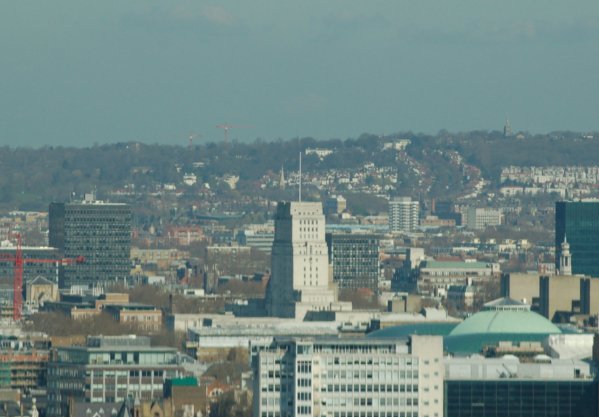 Senate House, University of London seen from the London Eye